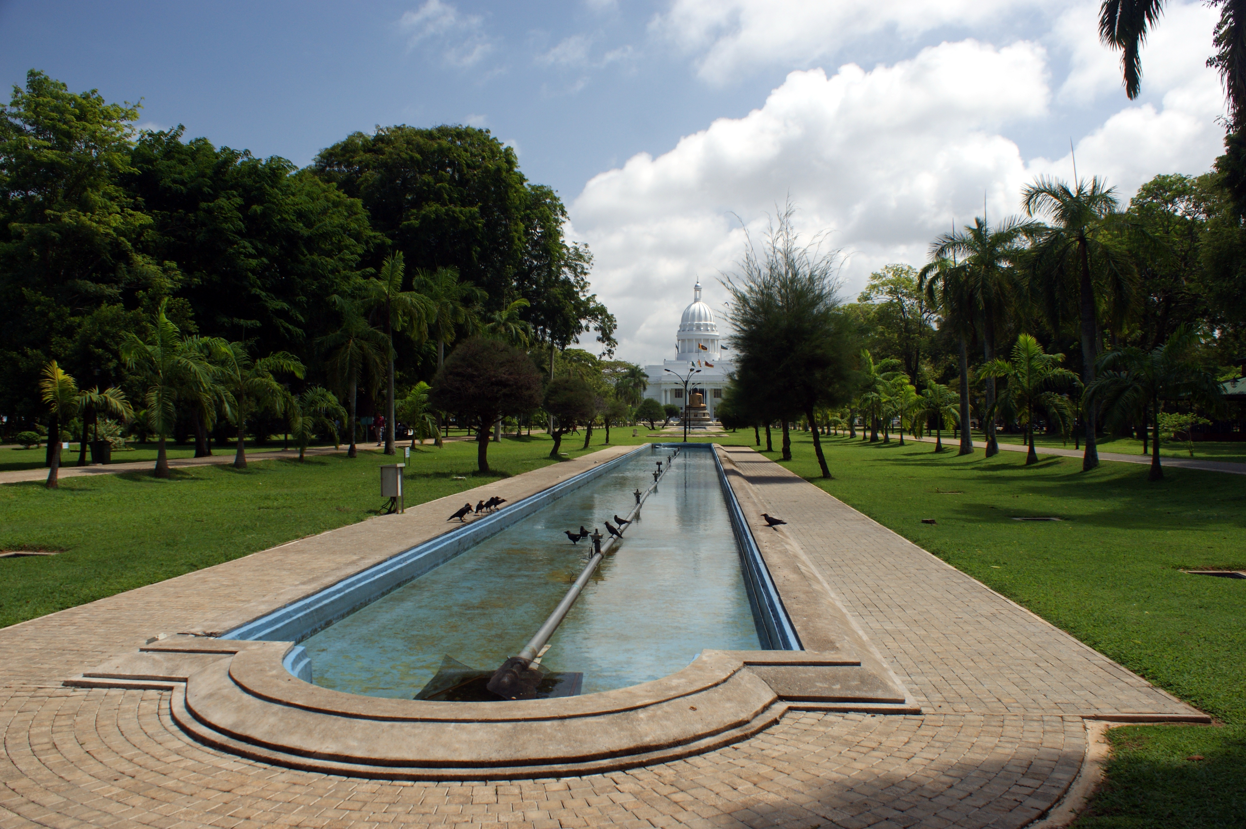 Viharamahadevi Park (view towards Town Hall)